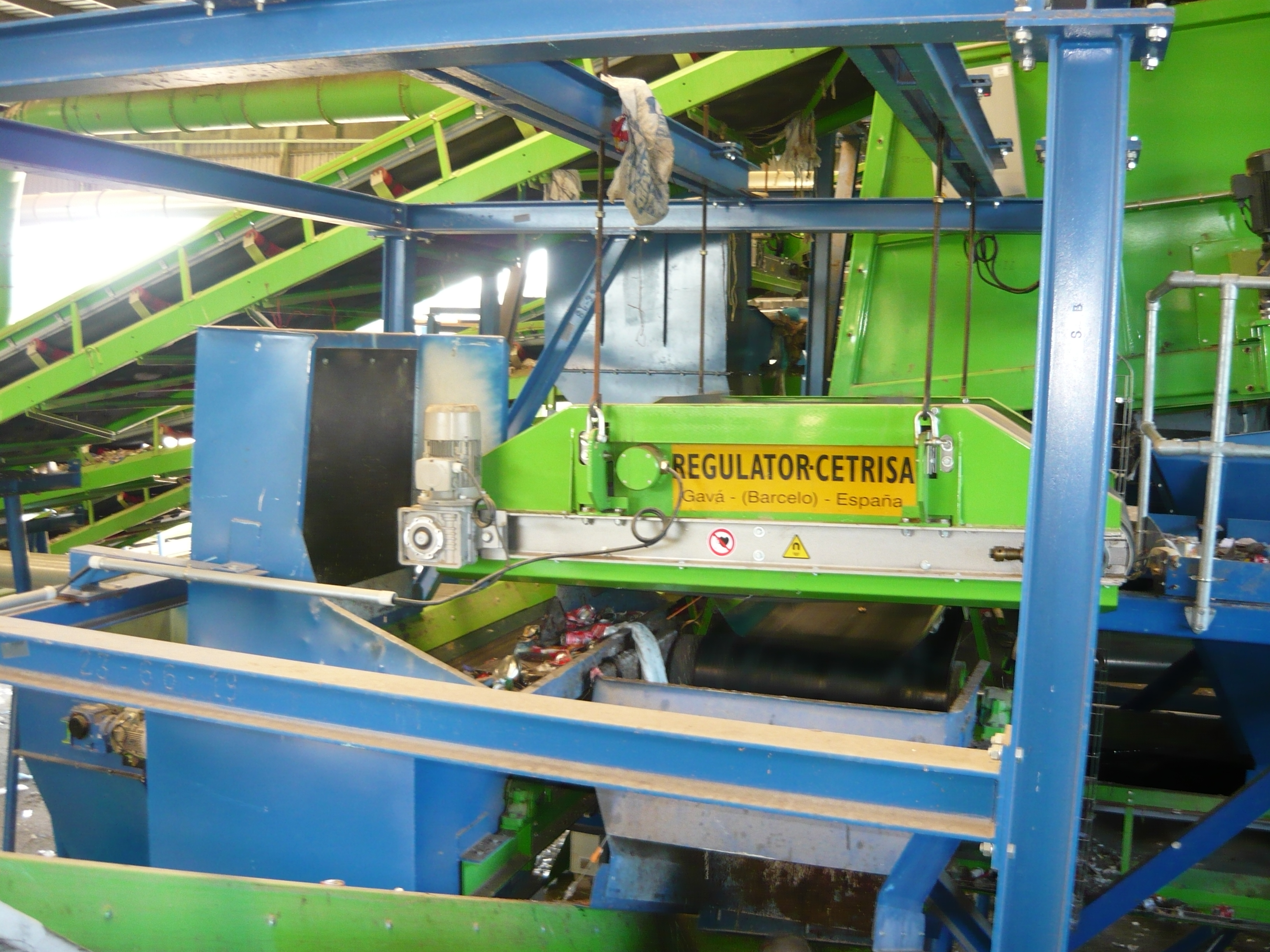 Magnetic separator